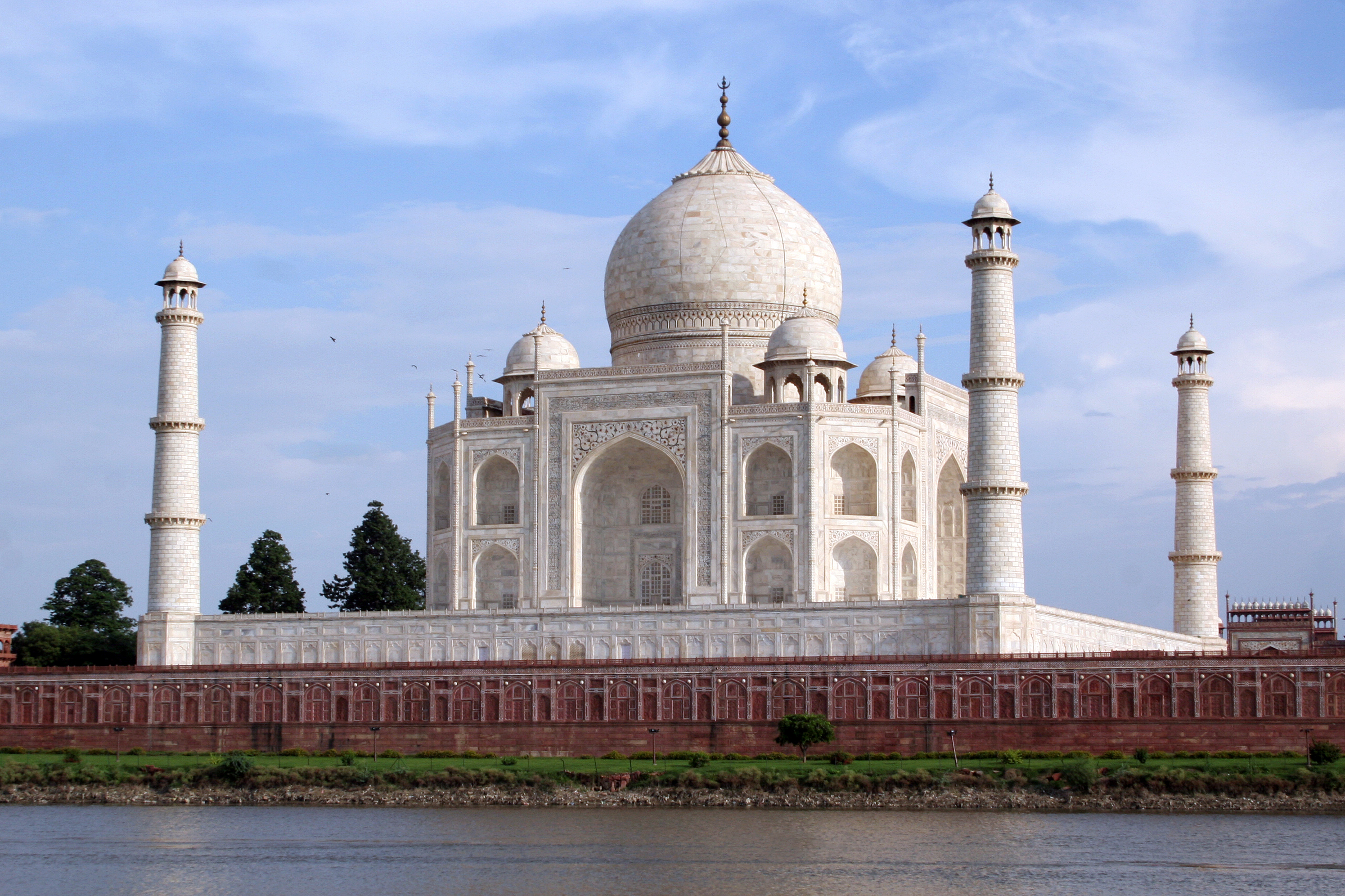 Taj Mahal world heritage site in Agra, India.